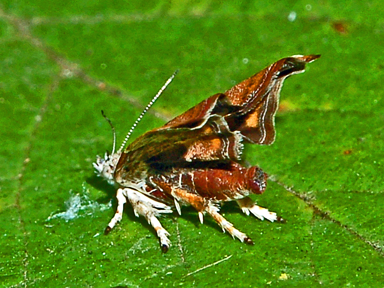 "Choreitis nemorana". Genova, Italy